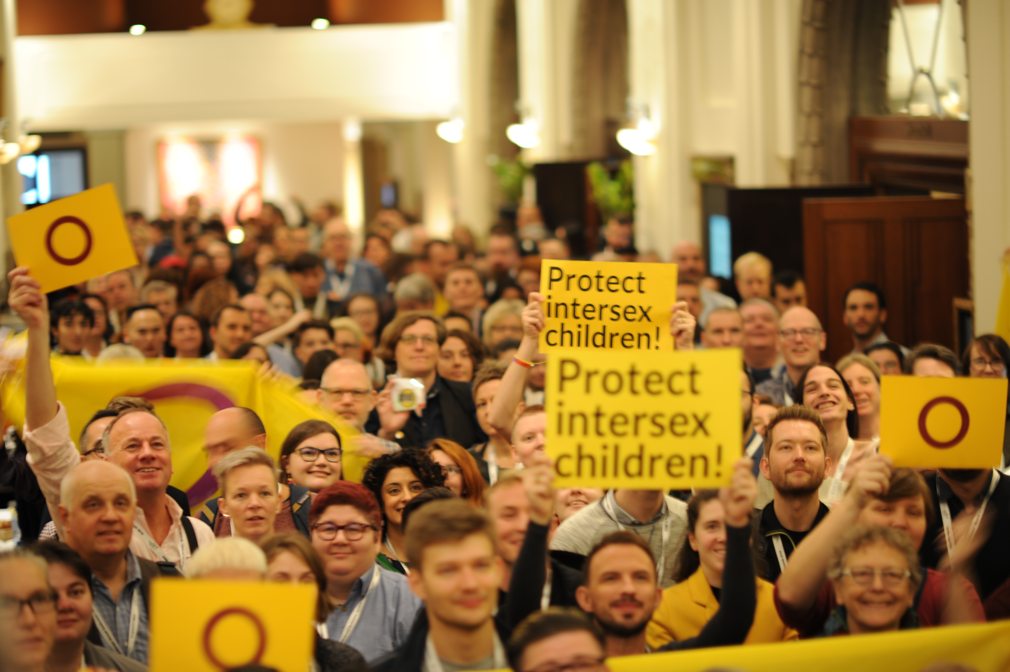 Group photo for the Intersex Awareness day 26th october 2018 at ILGA conference 2018 in Brussels. Note that faces are purposefully blurred to respect privacy and identity of the people displayed.